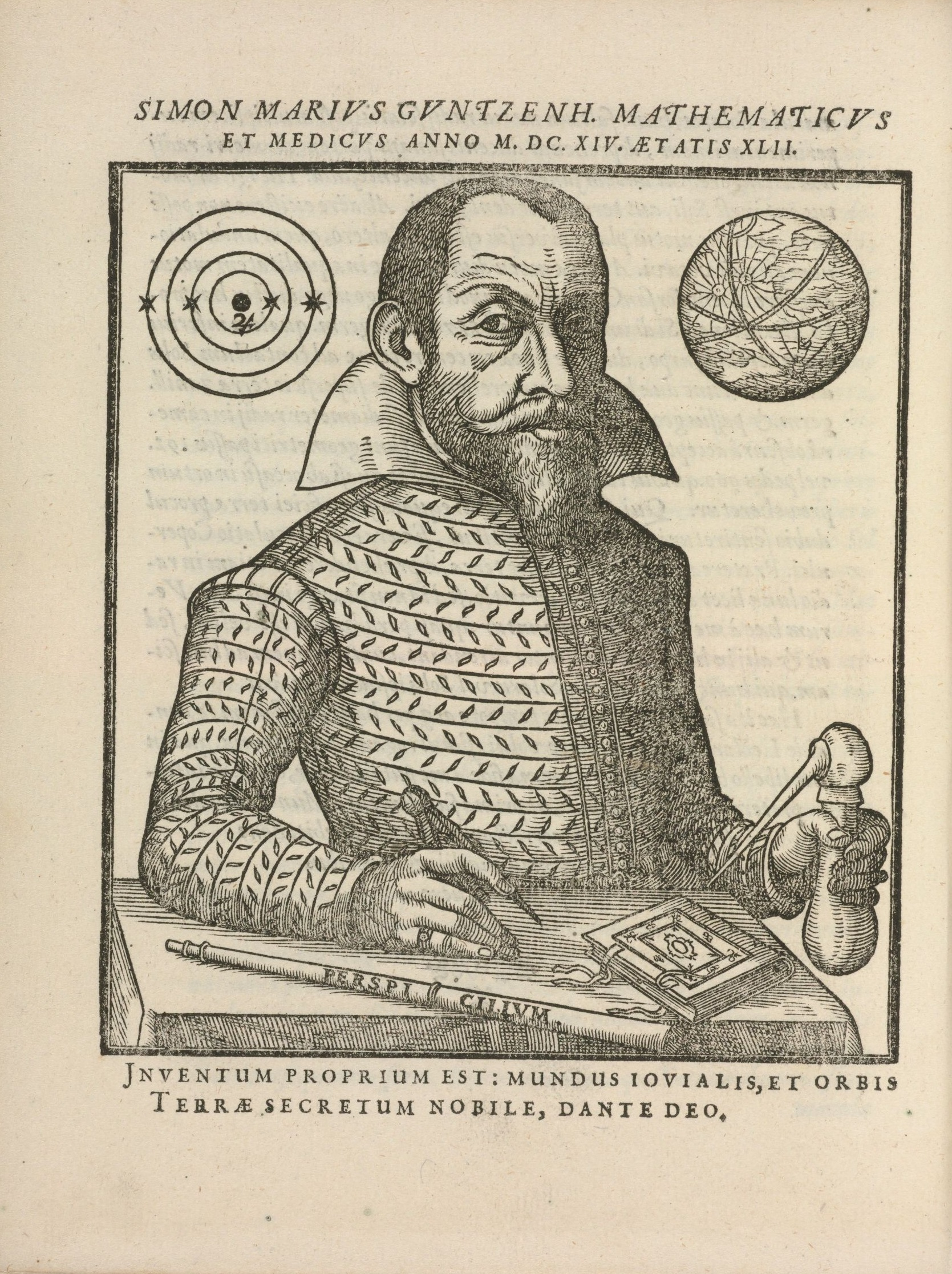 Engraved image of Simon Marius (1573-1624), from his book Mundus Iovialis, 1614. *GC6 M4552 614m, Houghton Library, Harvard University